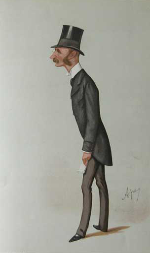 Caricature of Hugh Fortescue, Viscount Ebrington (1854-1932) (4th Earl Fortescue from 1905) (NB File name misleading). Caption: "The Devon and Somerset", referring to his mastership of the Devon and Somerset Staghounds.